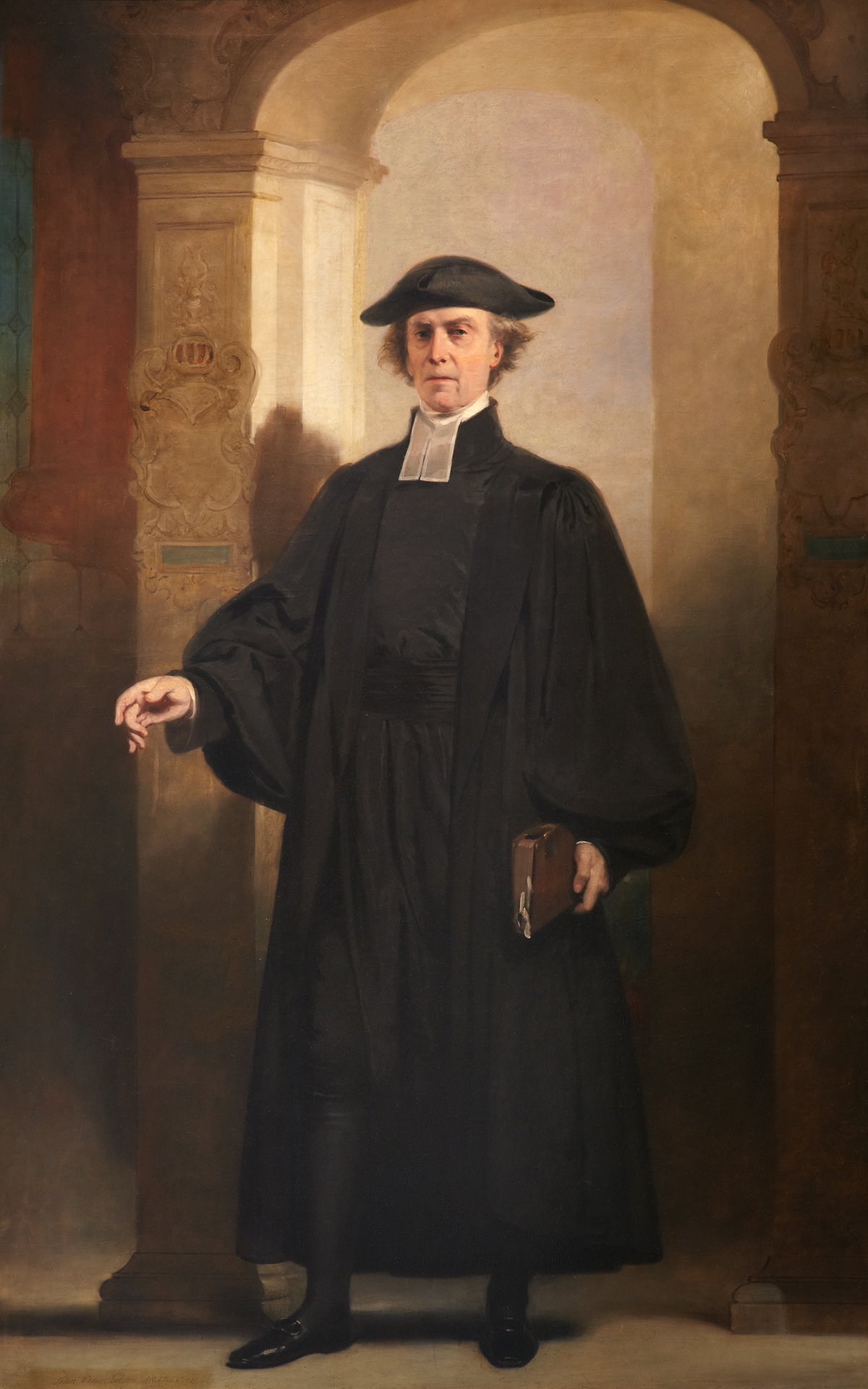 Full-length portrait of Principal Lee, wearing a black gown and cap, standing before an archway. His left hand holds a book while his right rests on a table.